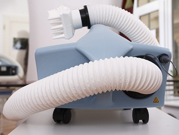 A LouseBuster device designed to kill head lice and nits by heated air.